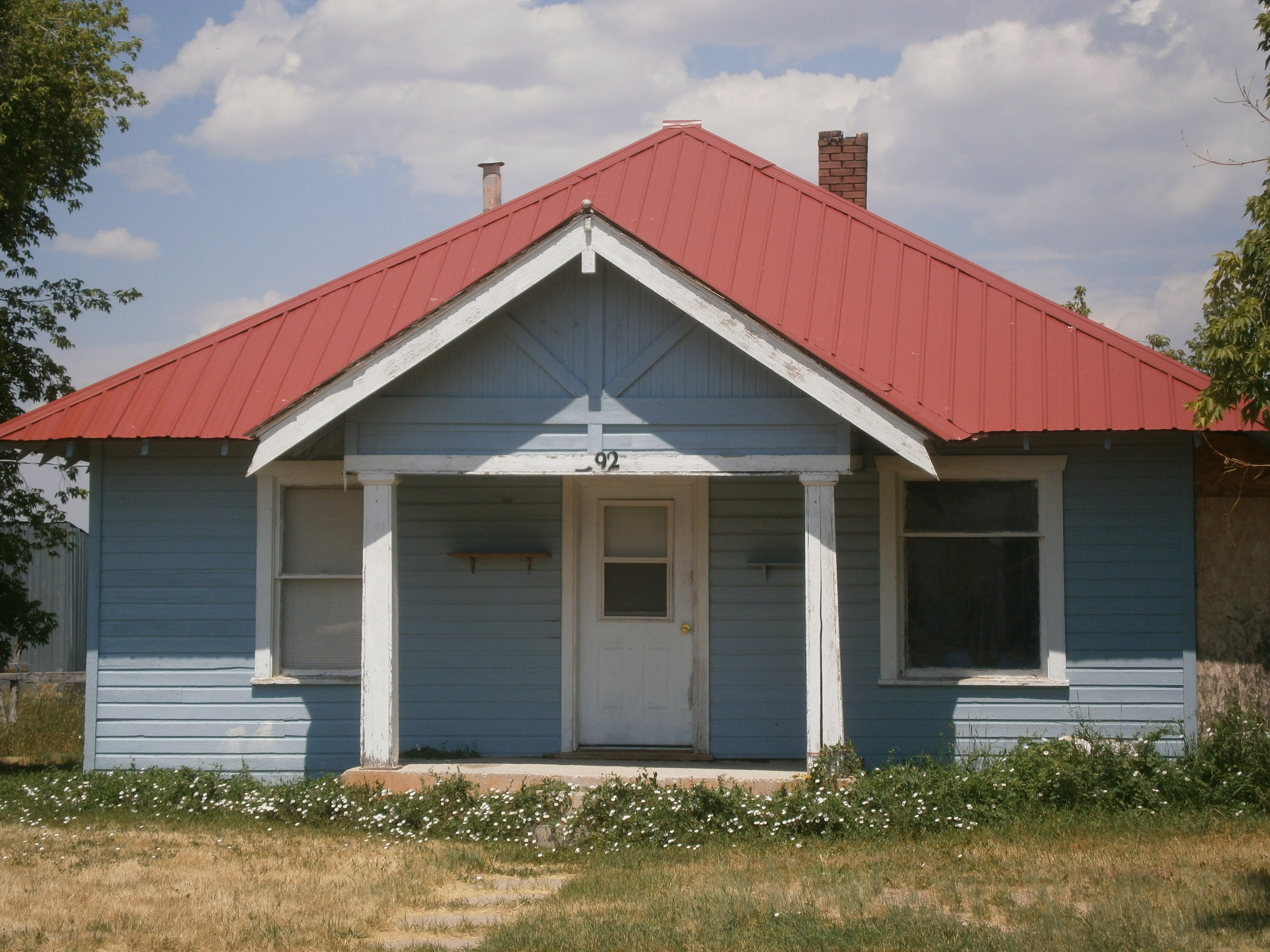 The Fred Lewis Cottage, a historic home in Paris, Idaho, United States.